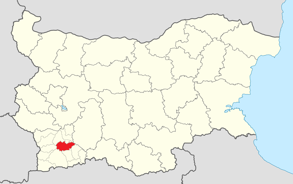 Location map of Bansko Municipality within Bulgaria and Blagoevgrad province